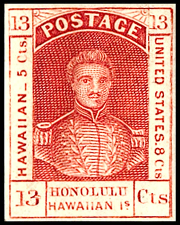 Stamp of Hawaii, 13¢, 1853, dark red, King Kamehameha III, Scott 6.